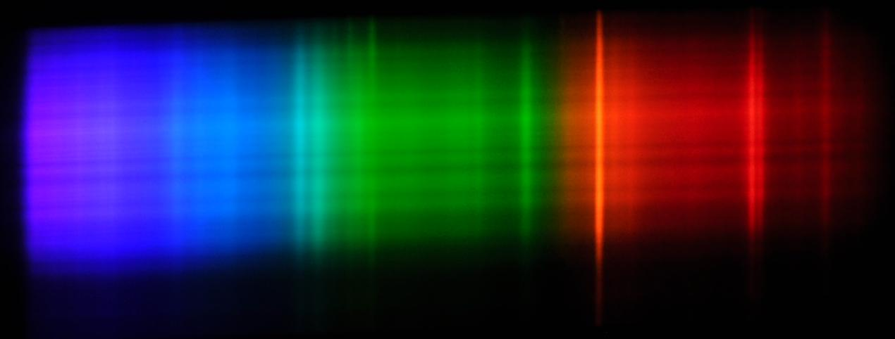 Light spectrum generated by a 20kV air-gap flash.